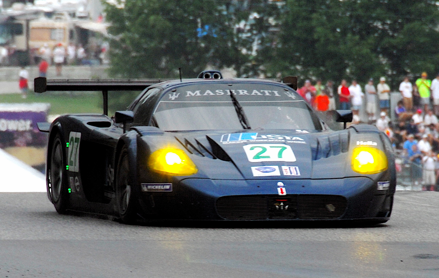 Doran Racing's Maserati MC12 at the 2007 Generac 500